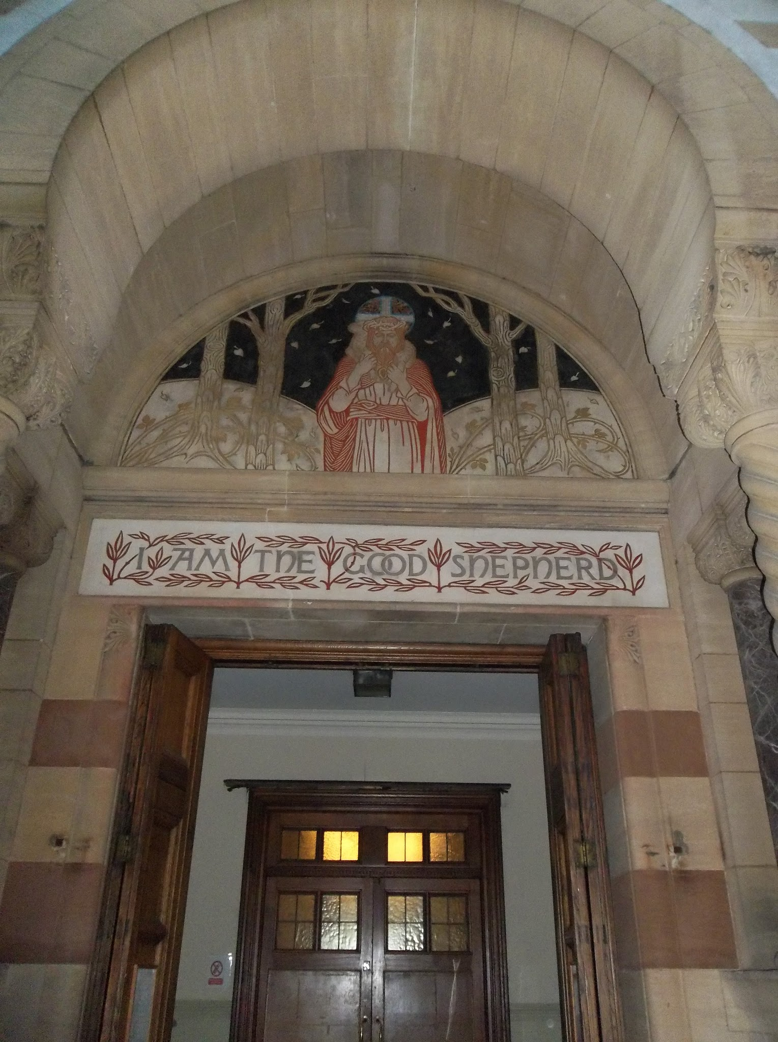 Lintel and art above the doorway of the Russian Orthodox Cathedral of the Dormition of the Mother of God and All Saints in London, England